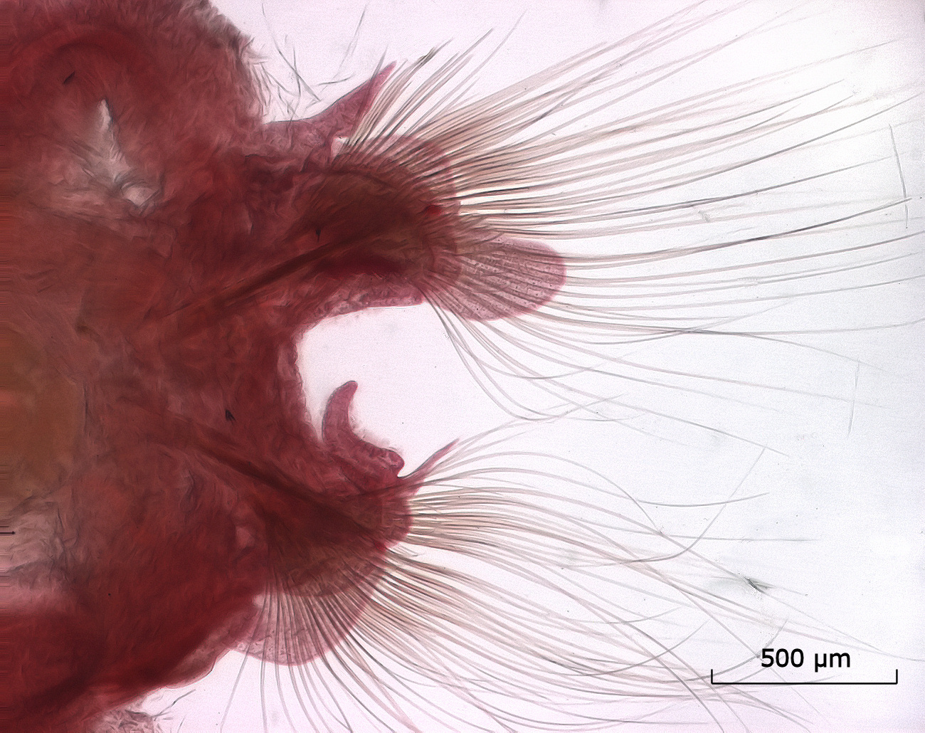 Parapodium of a Polychaete. Animal was captured in the Belgian part of the North Sea. Studio photograph.